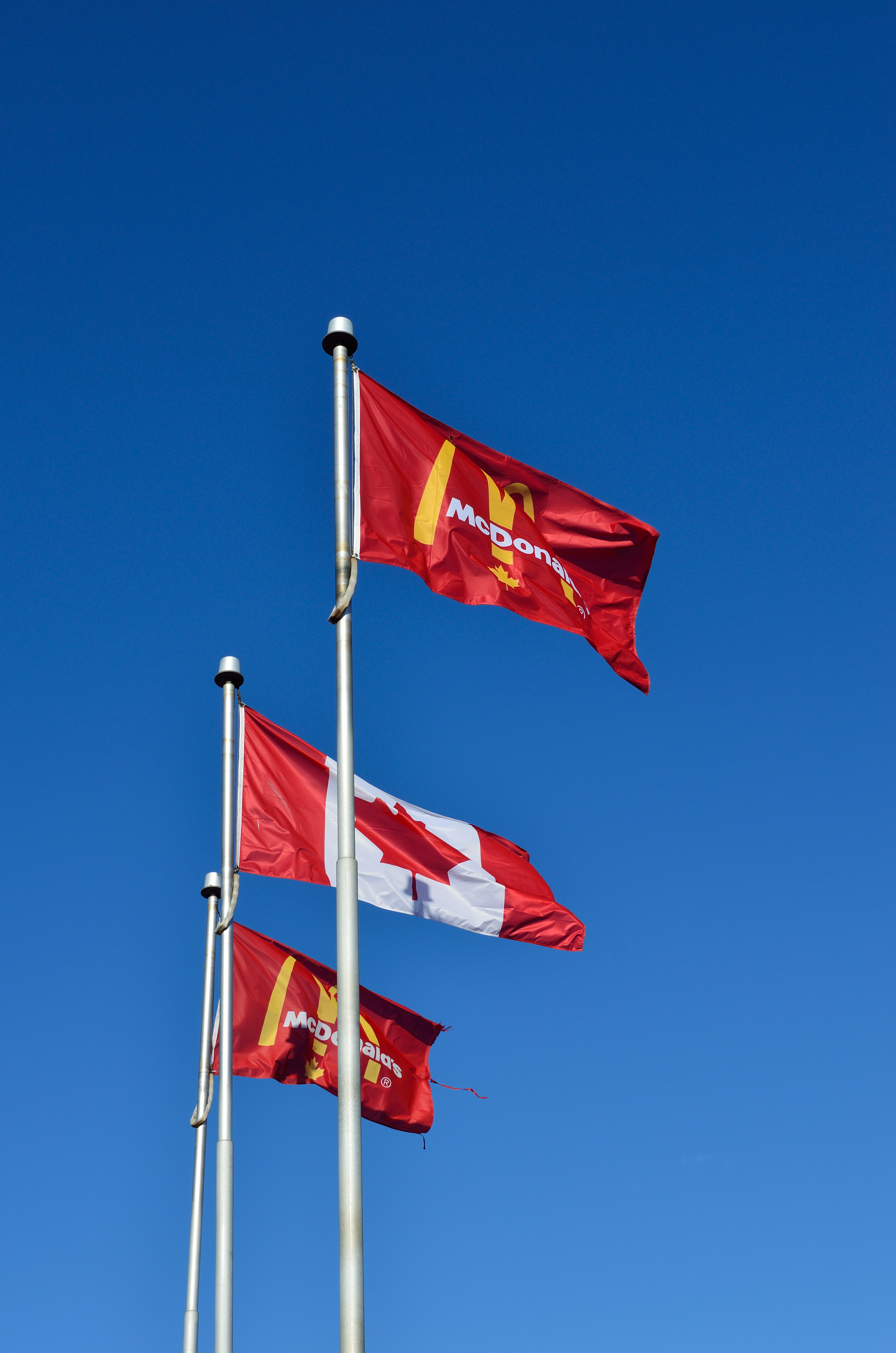 McDonald's & Canadian flags.